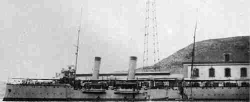 Spanish protected cruiser Extremadura (1900)